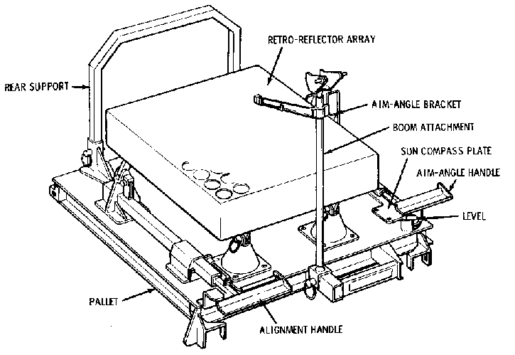 Diagram of the Laser Ranging Retroreflector. Part of the ALSEP.